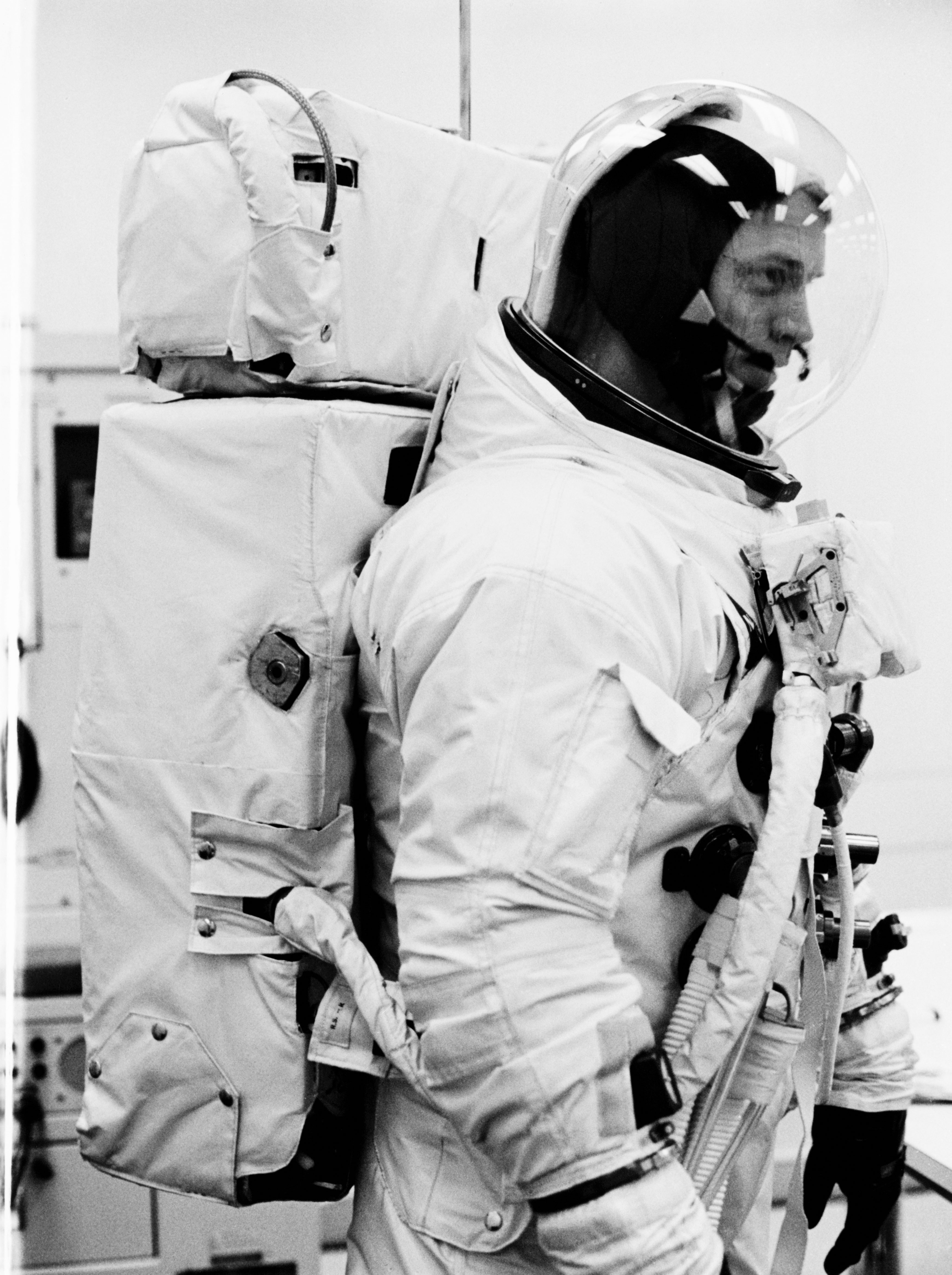 S69-25878 (23 Feb. 1969) --- Astronaut Russell L. Schweickart, lunar module pilot of the Apollo 9 prime crew, wears the Extravehicular Mobility Unit (EMU) which he will use during his scheduled Apollo 9 extravehicular activity. In addition to the space suit and bubble helmet, the EMU also includes a Portable Life Support System back pack, an Oxygen Purge System (seen atop the PLSS), and a Remote Control Unit on his chest. This equipment will be completely independent of the spacecraft during Schweickart's EVA. He will be secured only by a tether line. When this photograph was taken, Schweickart was suited to participate in an Apollo 9 Countdown Demonstration Test.